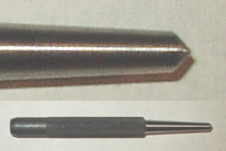 Grey handled, center-punch tool, main portion of image shows relevant punch in detail.